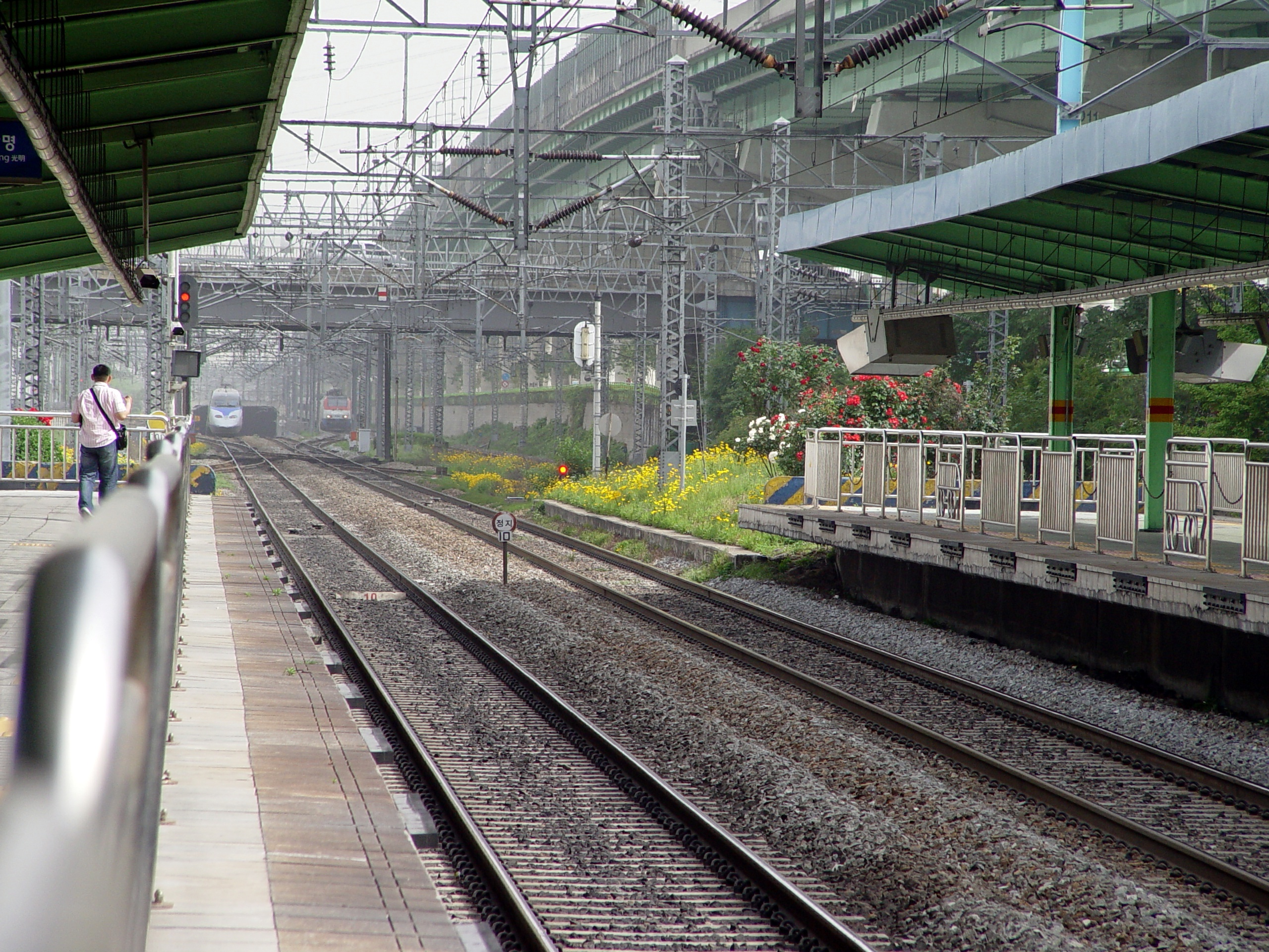 A southbound KTX entering tunnel south of Siheung Station platforms while a northbound train on the Gyeongbu Line rounds the bend to pass through the station. Neither train stops here.